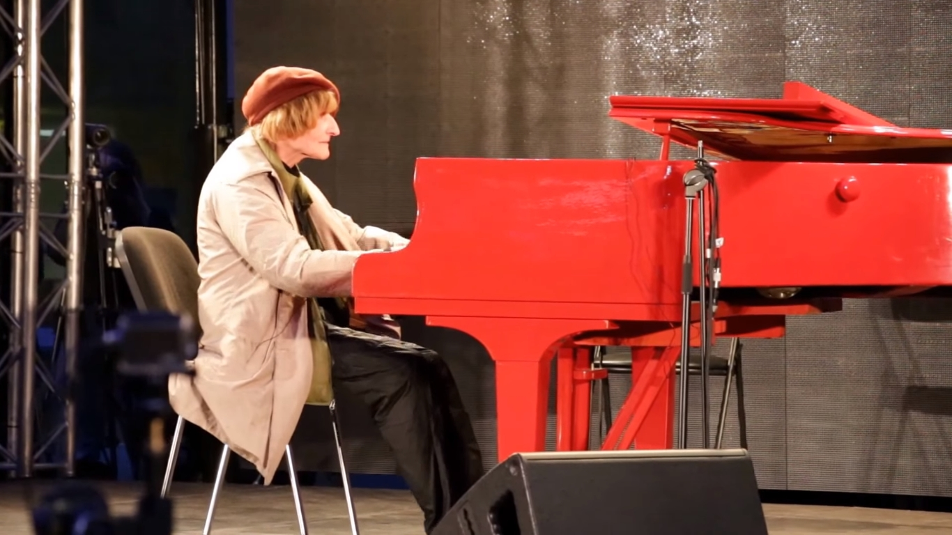 Oleg Karavaychuk in August 2015